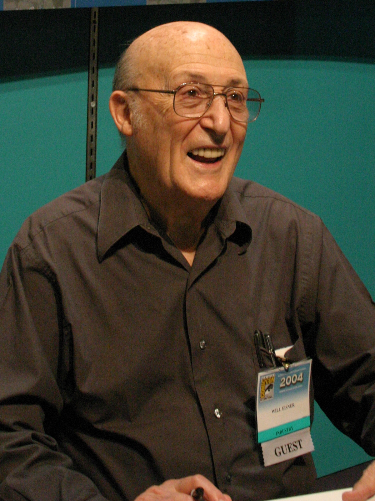 Will Eisner appeared at 2004 San Diego Comic Con. Photograph by Patty Mooney, Crystal Pyramid Productions, San Diego, California.